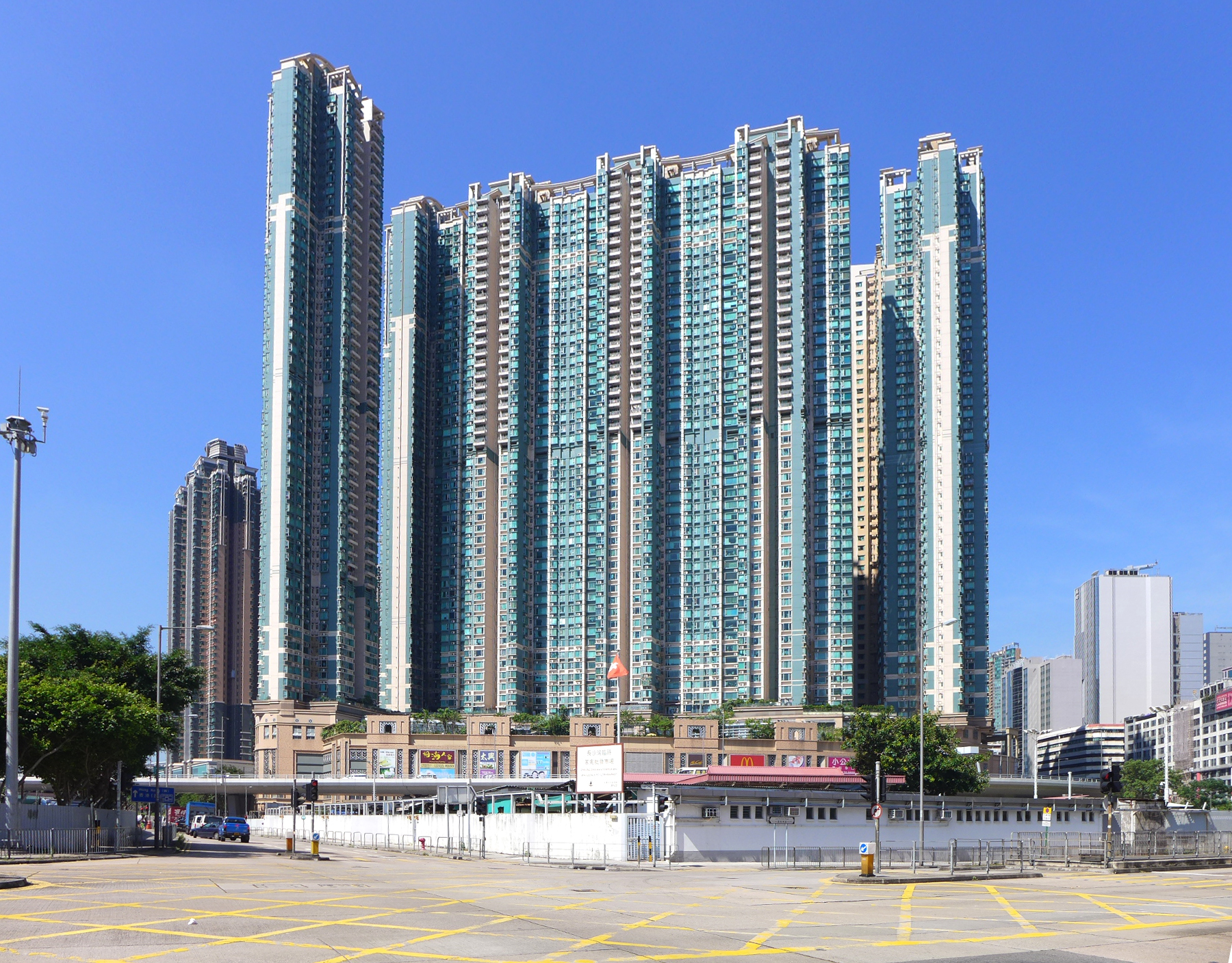 The Pacifica